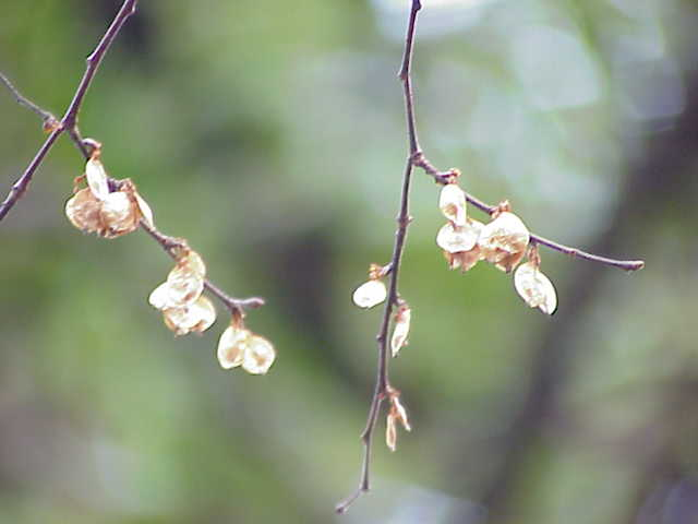 Species: Ulmus pumila Family: Ulmaceae Image No. 1